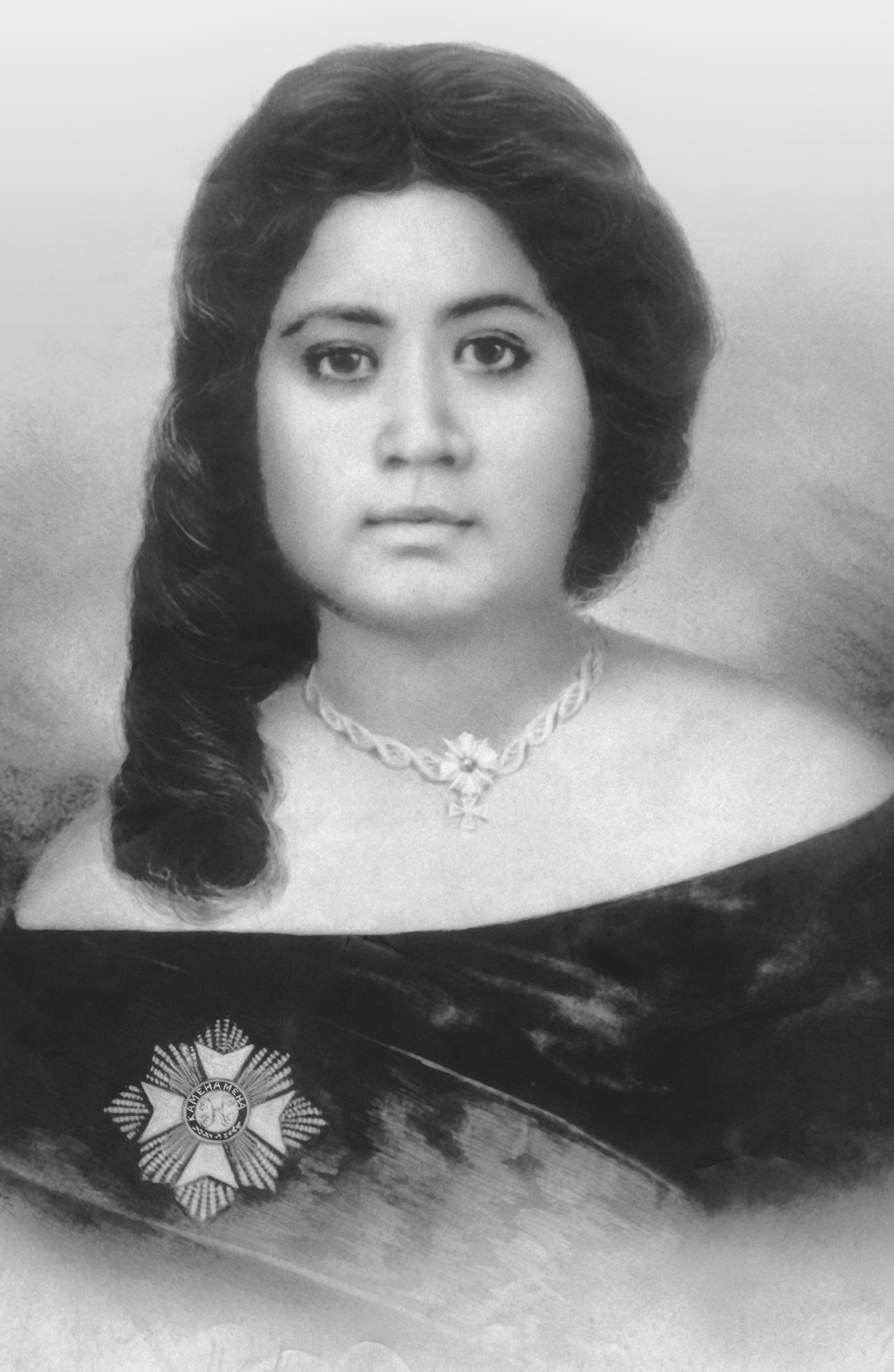 Victoria Kamāmalu (1 November 1838–29 May 1866) was named prime minister (Kuhina Nui) of the Kingdom of Hawaii when she was 17. She took the name Ka'ahuman IV for her reign. Although she might have become queen, she died before Kamehameha V, resulting in the election of king Lunalilo.